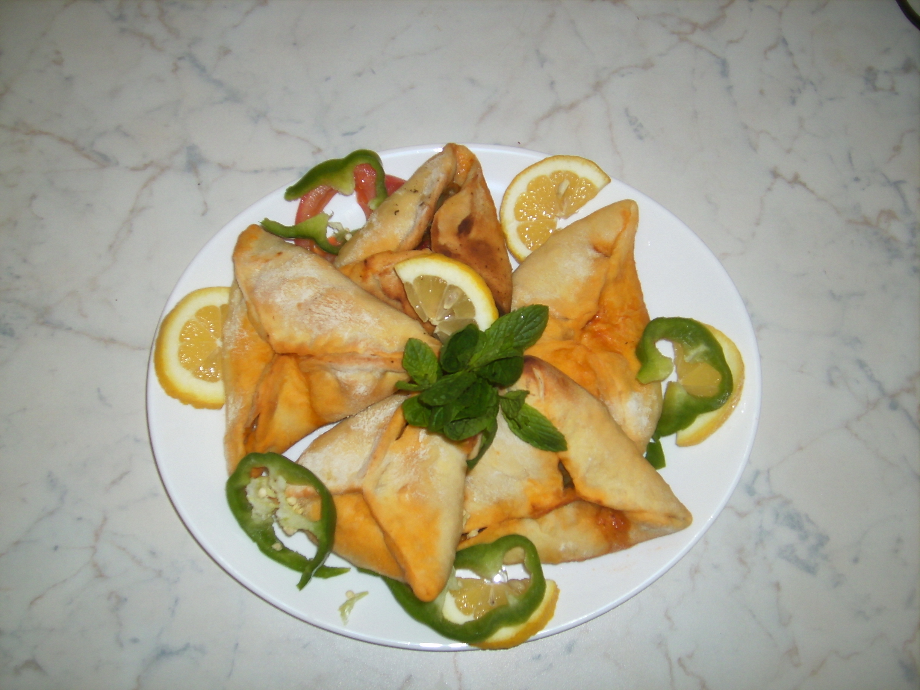 Ftayer be lefet (turnip turnovers)